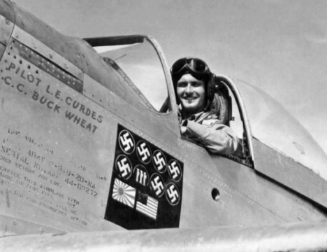 Captain Louis E. Curdes sitting in his P-51 fighter "Bad Angel" - Philippines, 1945.